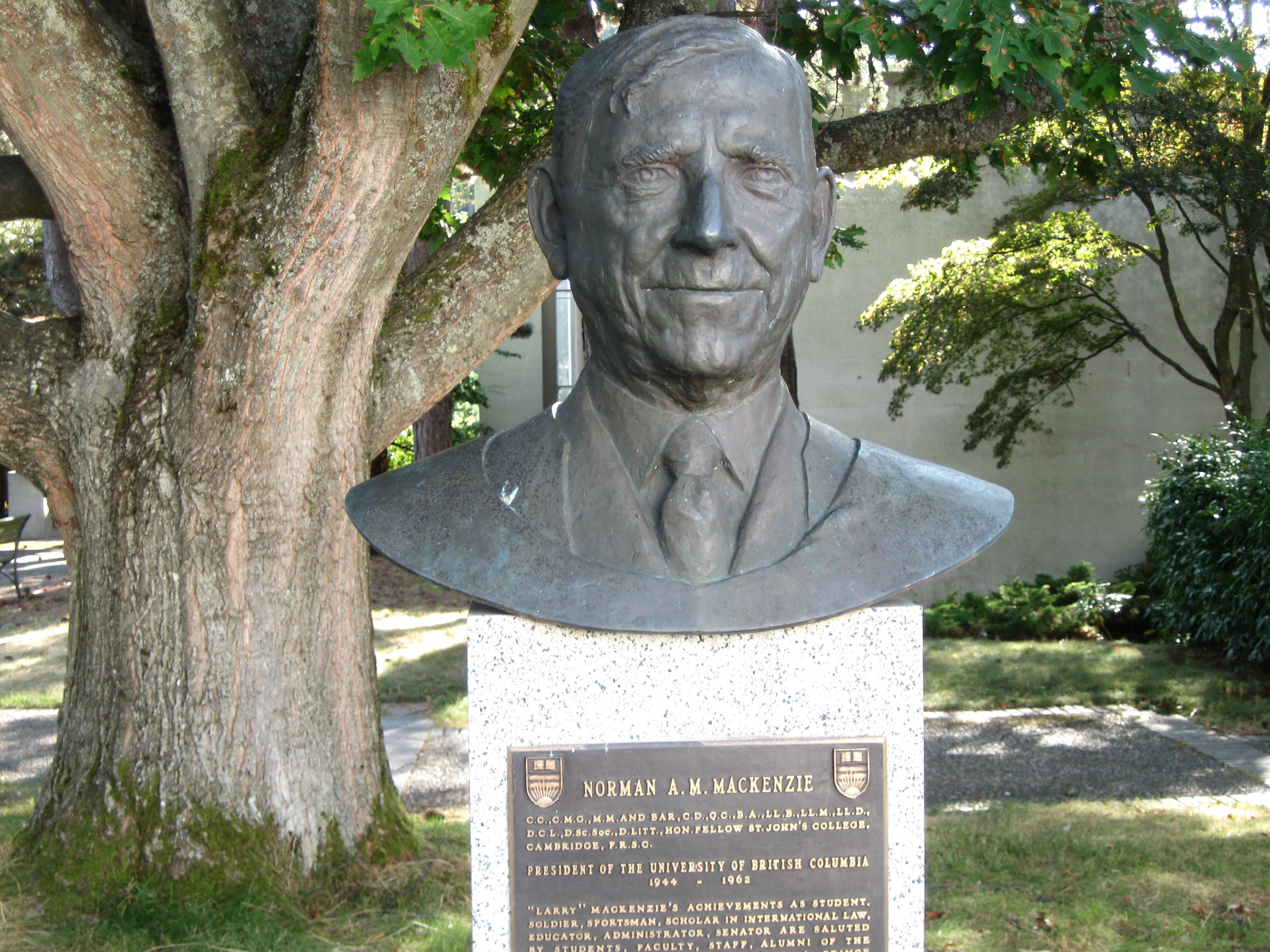 A sculpture of Norman MacKenzie who was the president of UBC in Vancouver, Canada from 1944 to 1962. This sculpture commemorates his service and his desire "to discover [one] self and the world, desire to render service to others, will to conquer the new, the novel, the unknown." This sculpture appears to have been erected on September 3, 1979 and is permanently situated on the Vancouver campus of UBC where President MacKenzie served as this institution's head for 18 years. He later became a Canadian senator and a member of the Order of Canada. He passed away in 1986.